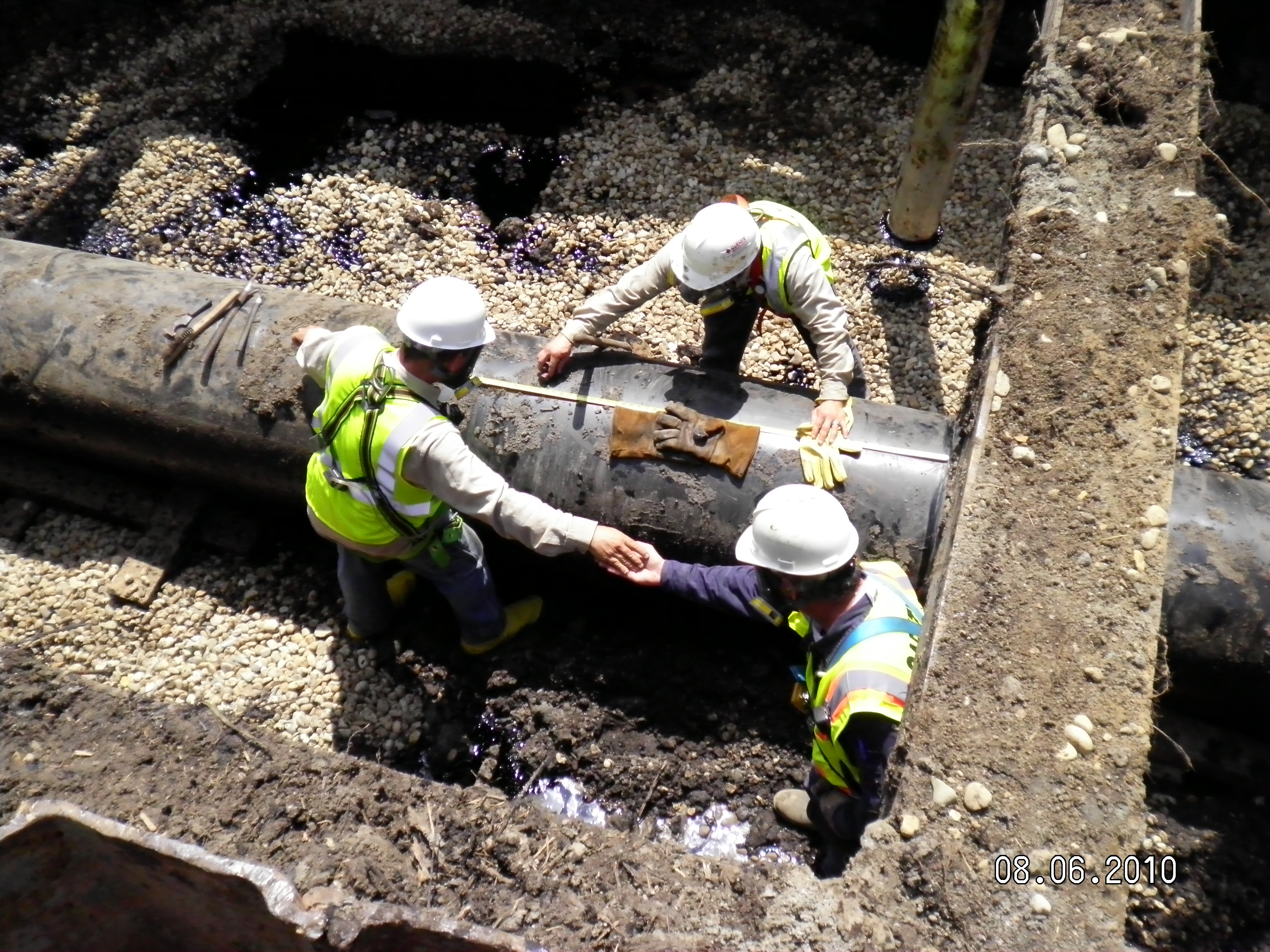 Technicians in personal protective equipment measure pipe before cutting and removing the section from the Enbridge pipeline oil spill site near Marshall, Michigan. More about EPA's response to the Enbridge oil spill